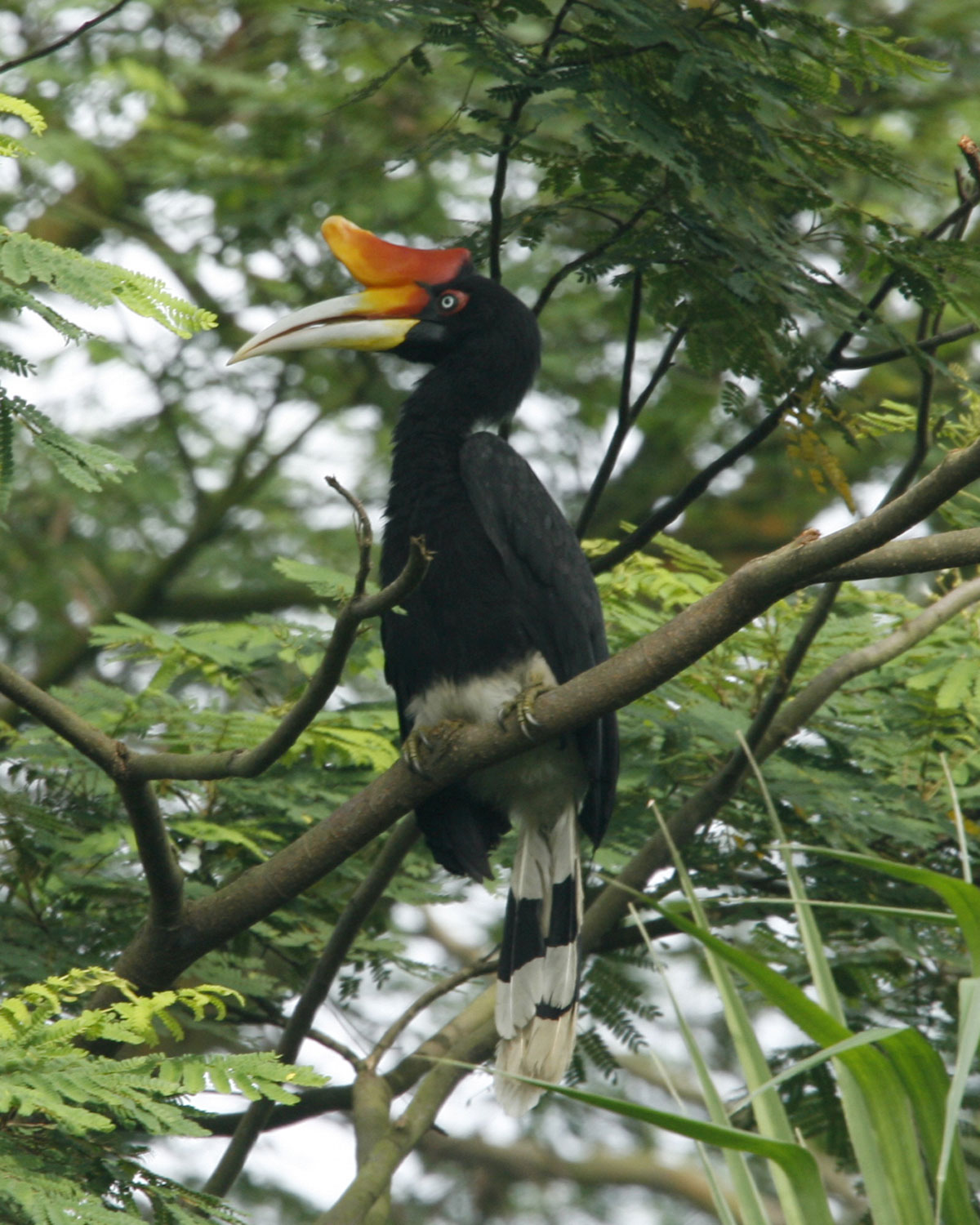 Rhinoceros Hornbill (Buceros rhinoceros). A female in the Central Catchment Area, Singapore. Possibly an escapee.